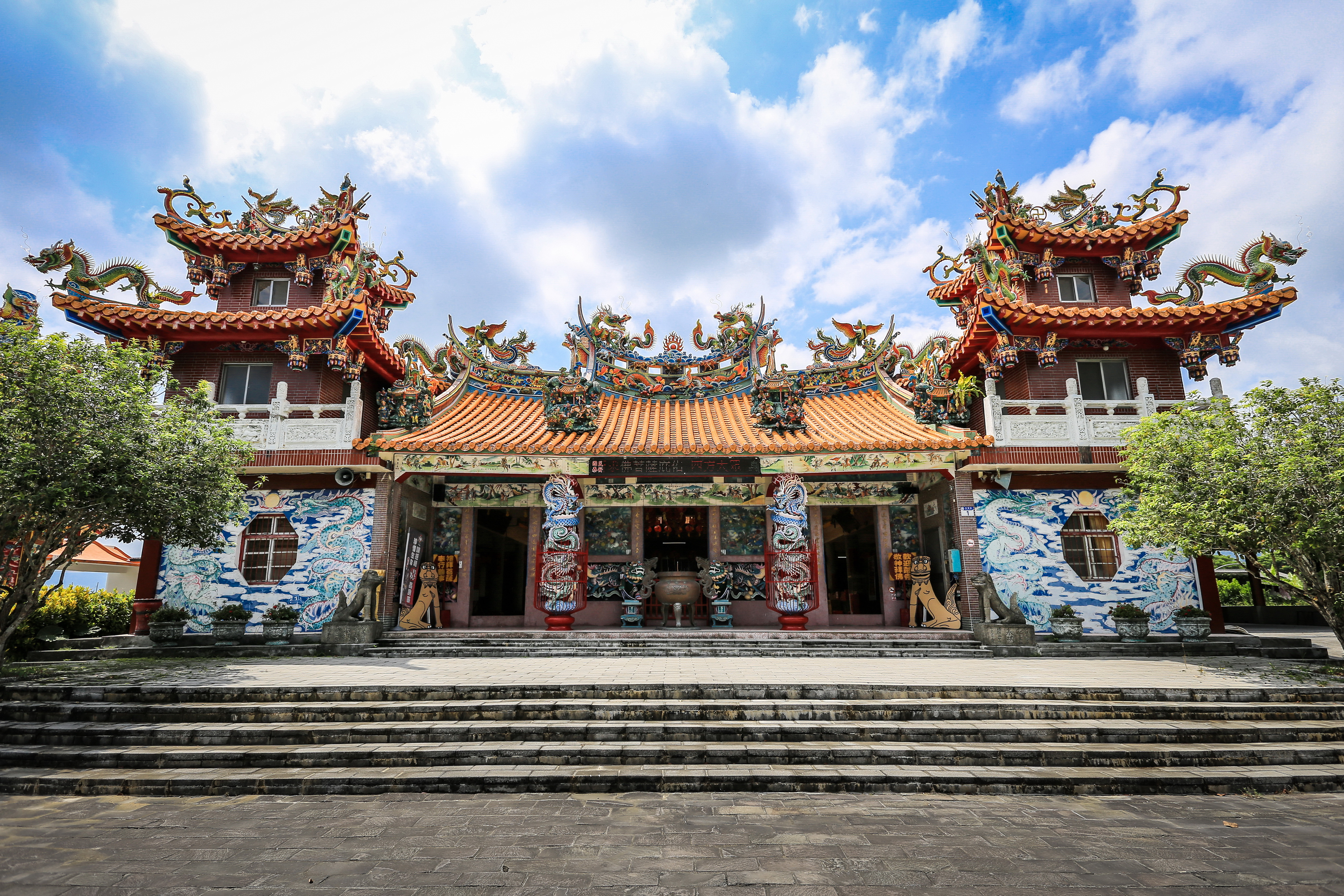 Fengtian Shinto Shrine (Bilian Temple), Shoufeng Township, Hualien County, Taiwan.